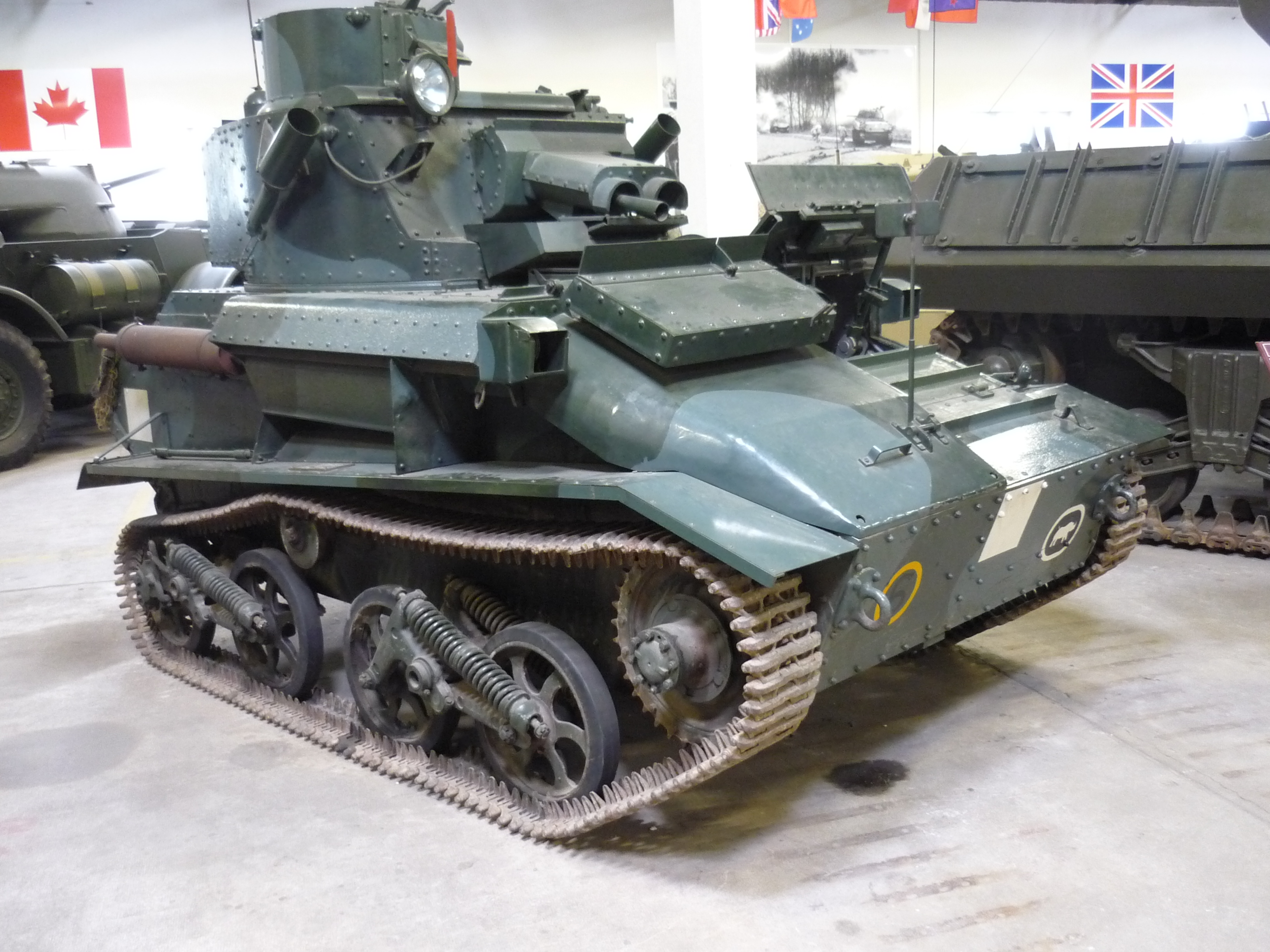 Vikers Mk VI at the Musée des blindés